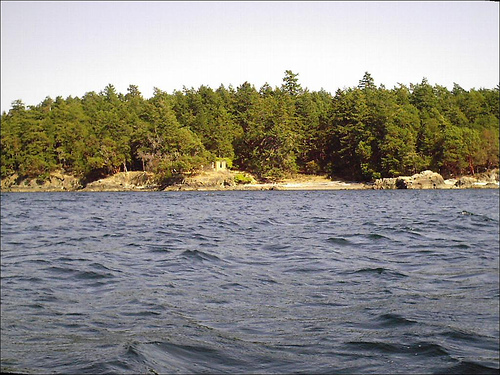 Approaching D'Arcy Island from the west by kayak. the remains of the caretaker's cabin are just visible.